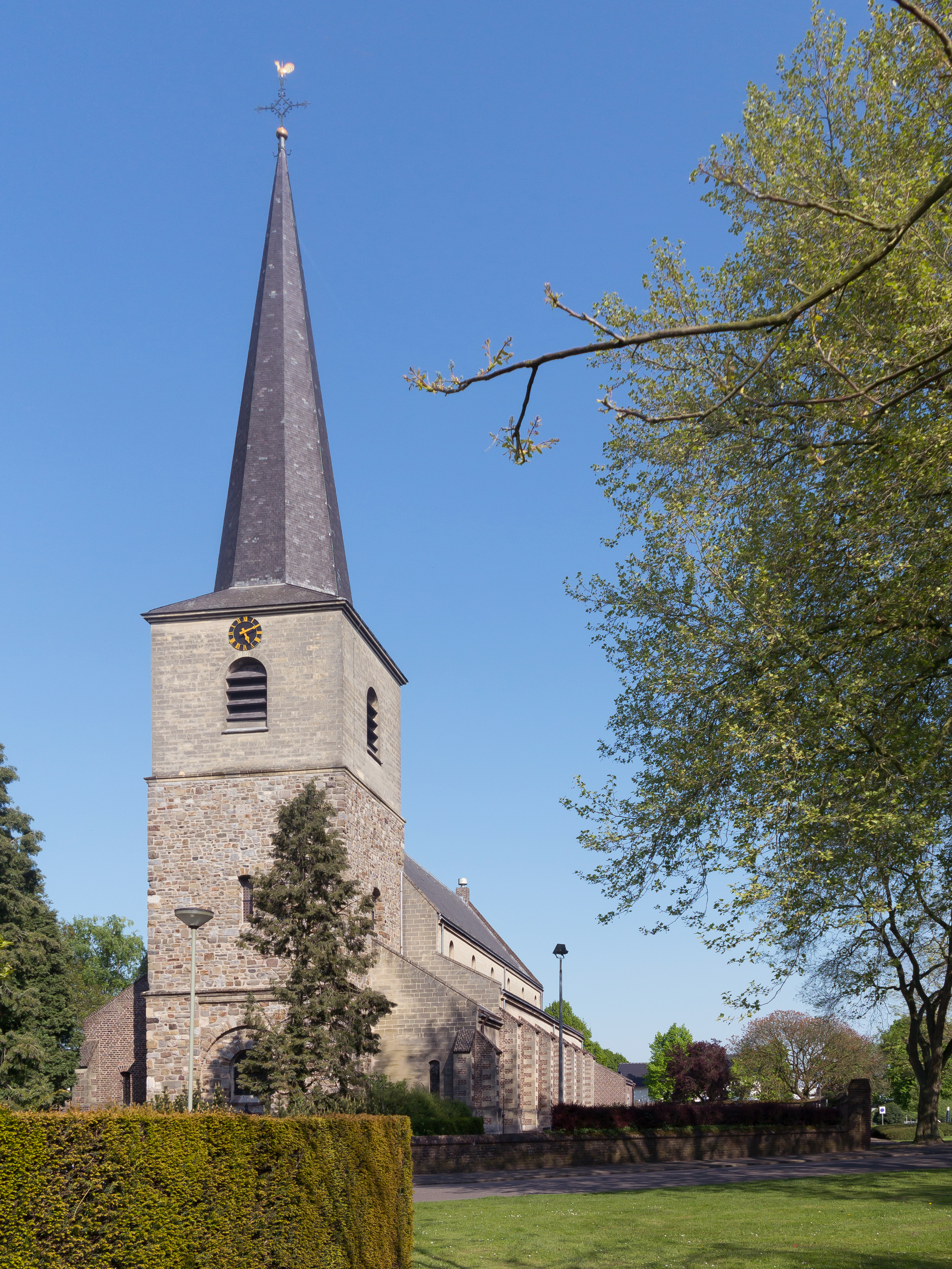 Wessem, church: de Medarduskerk